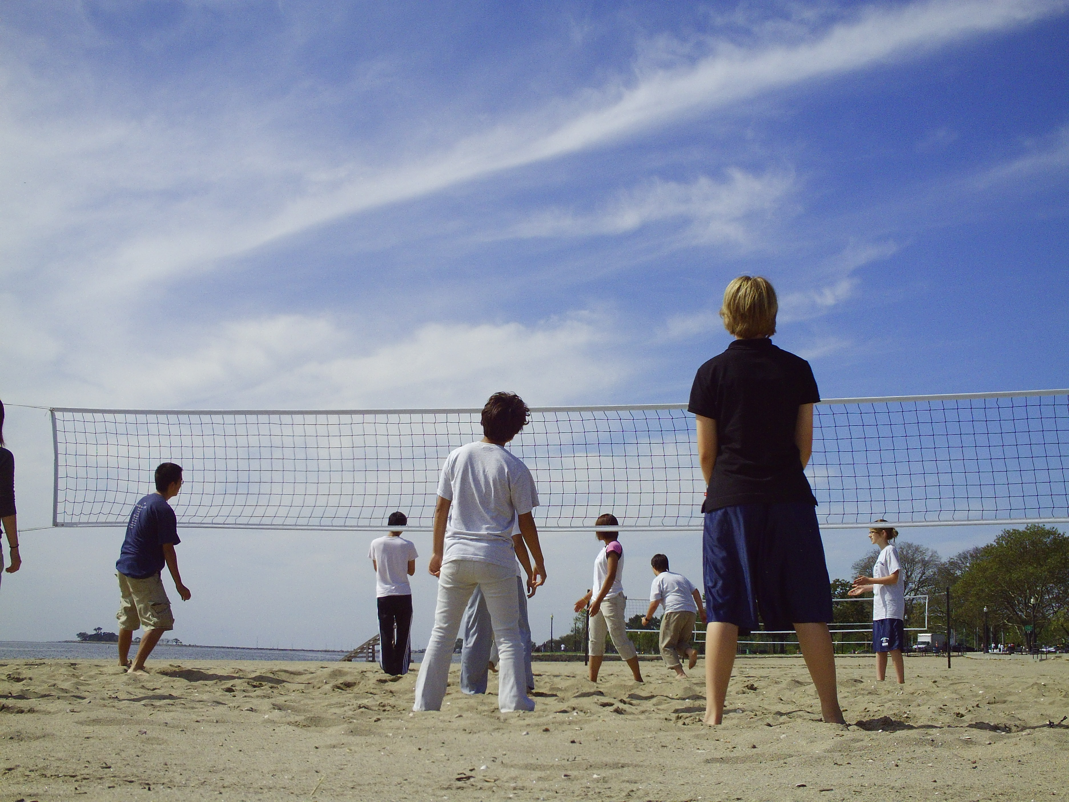 Volleyball at Seaside Park